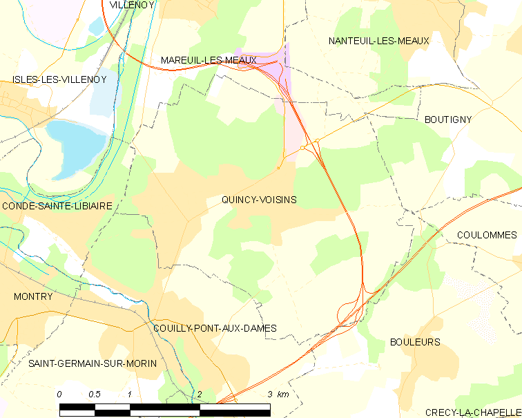 Map of French municipality Quincy-Voisins